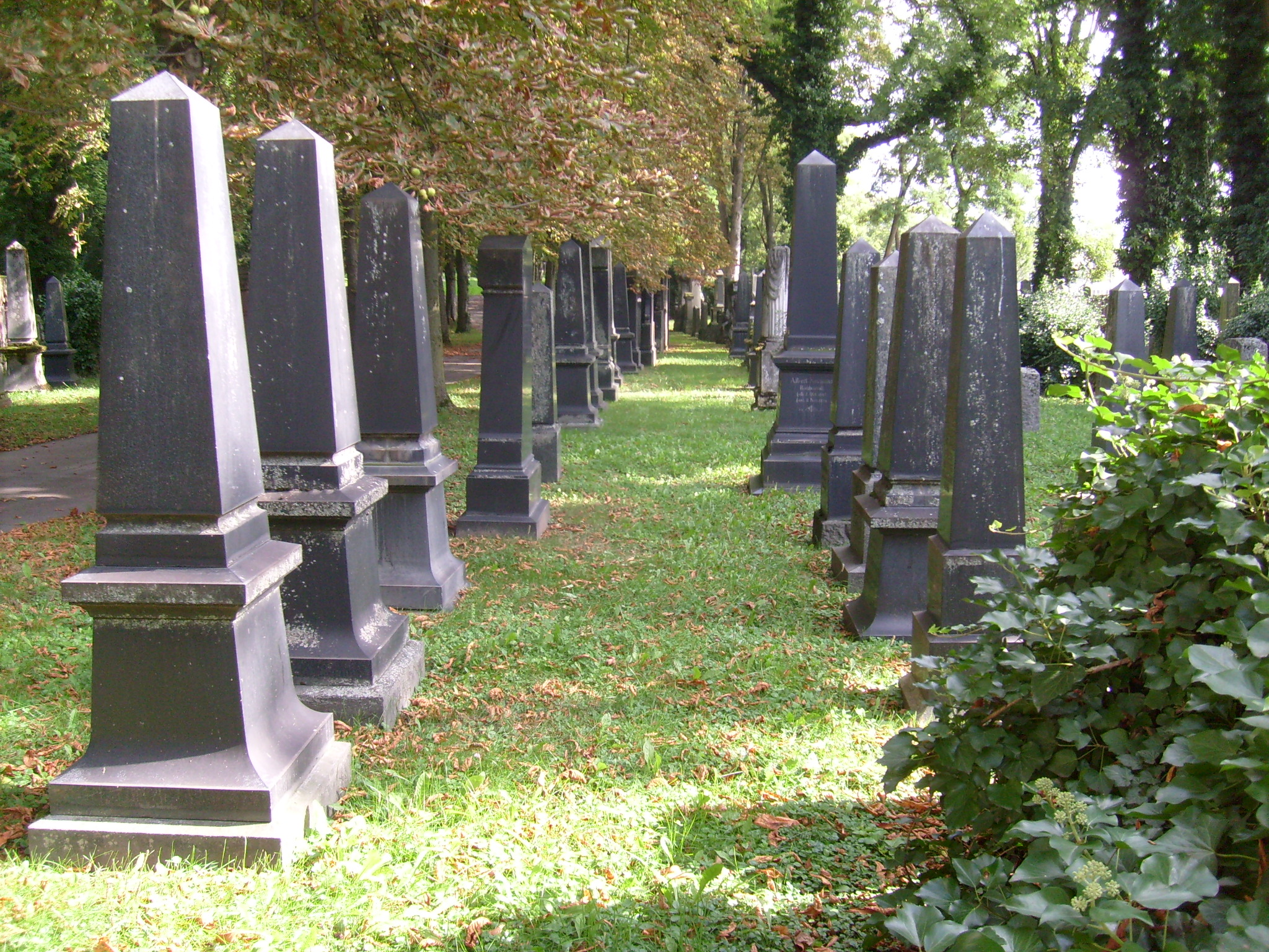 בית עלמין Jewish cemetery at Pragfriedhof (STR)